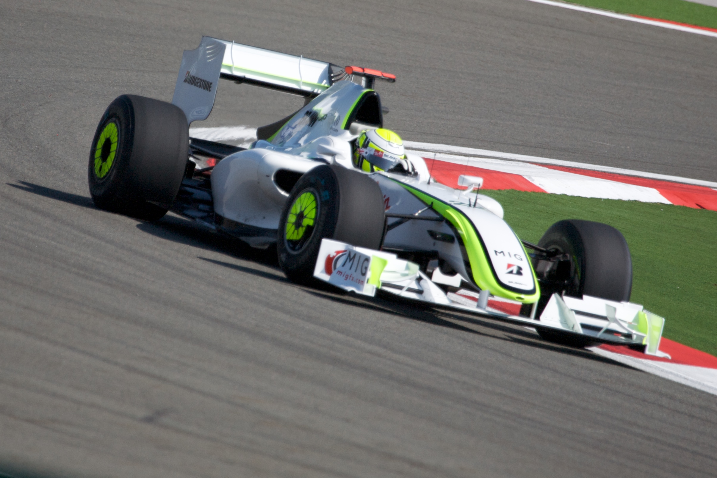 Jenson Button driving for Brawn GP at the 2009 Turkish Grand Prix.